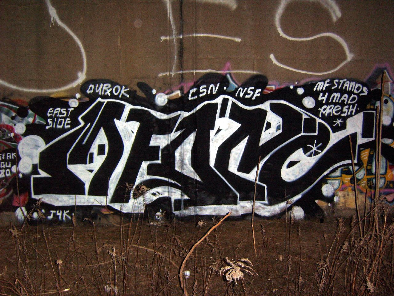 And I used to think it was Metal Face One (like Doom).